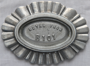 Image of Metal from R101 created by Thos W Ward Ltd 1931 and owned by Stuart Lythgoe